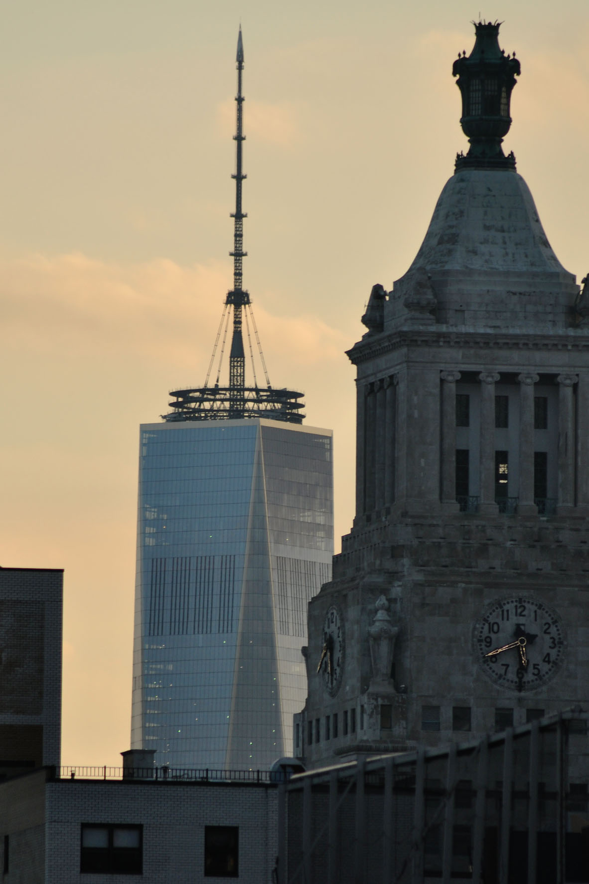 One World Trade Center, October 2014